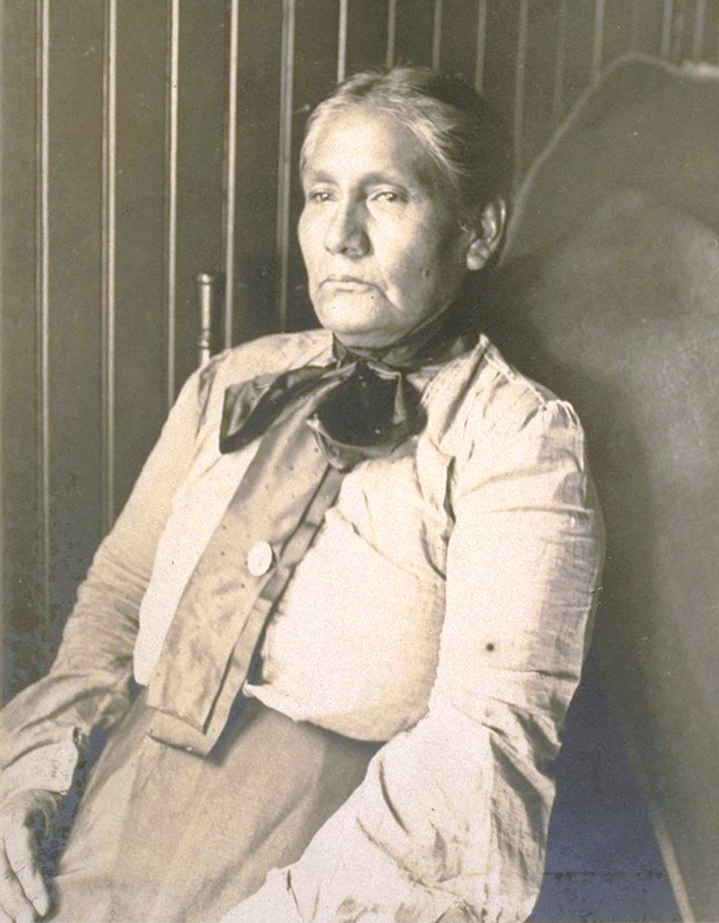 Mrs. James V. Rosemeyre; Bakersfield; July 1905